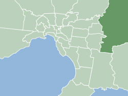 Map of Melbourne's Local Government Areas, highlighting Shire of Yarra Ranges